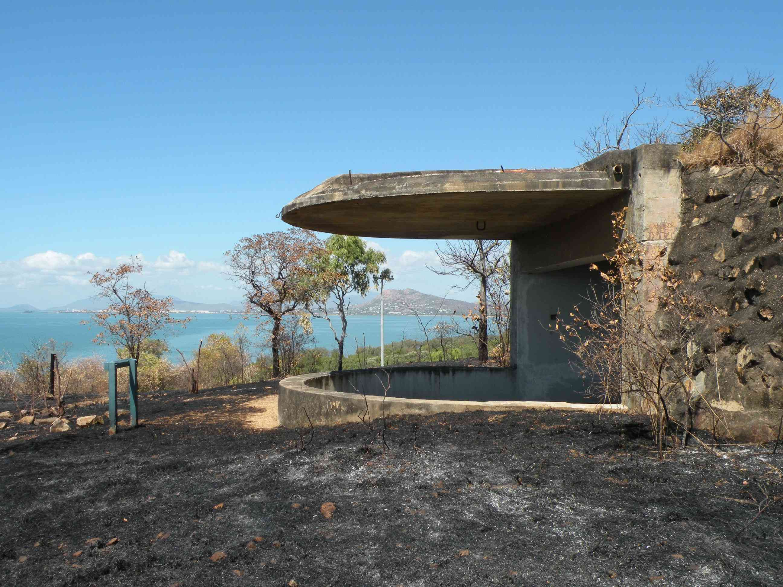 4.7inch coastal defence gun emplacement built in 1943, Cape Pallarenda, Townsville, 2009